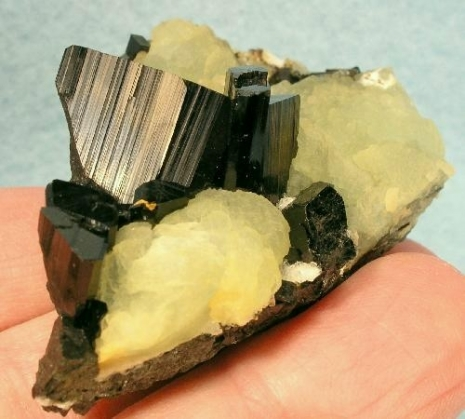 Babingtonite, Prehnite Locality: Lane & Sons Traprock quarries, Westfield, Hampden County, Massachusetts, USA (Locality at ) Size: 5.3 x 3.6 x 2.4 cm. Superb Babingtonite crystals from the classic locality of Lane & Sons Traprock Quarry, Massachusetts. It is very rare to find this quality Babingtonite from Lane Quarry - the crystals are razor-sharp, have superb striated luster, and they are numerous throughout the piece. The largest of the Babingtonites is 2.2 x 1.8 x .7 cm. Fabulous. The associated Prehnites are well-crystallized and a good mint green color. An outstanding combination piece. Even with recent finds in China, these still set a standard for a US locality. Ex. Charlie Key.